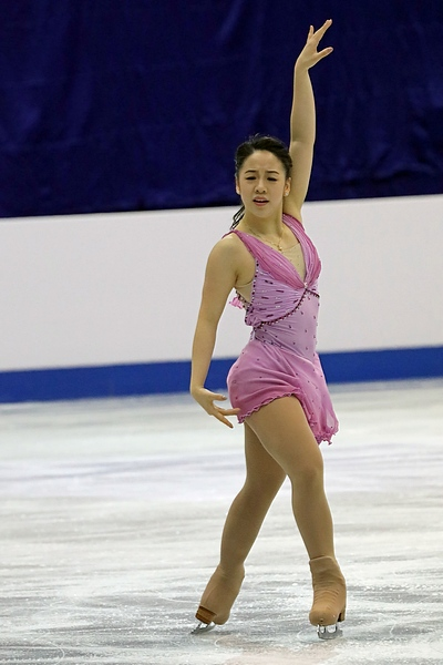 Photos – Junior World Championships 2017